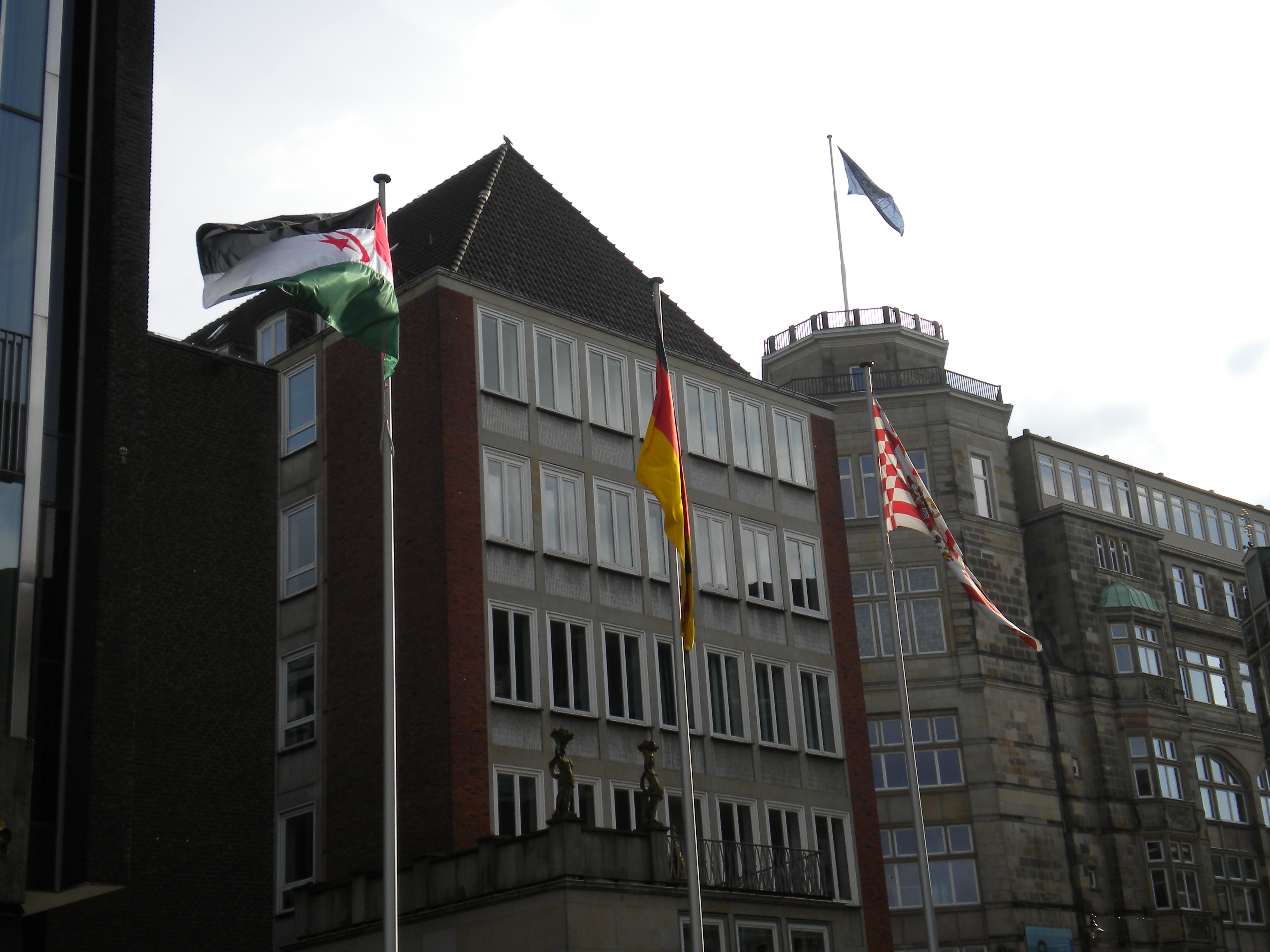 Official flag of the Sahrawi Arab Democratic Republic, Parliament House Bremen, 27.2.2016, 40th anniversary of SADR foundation